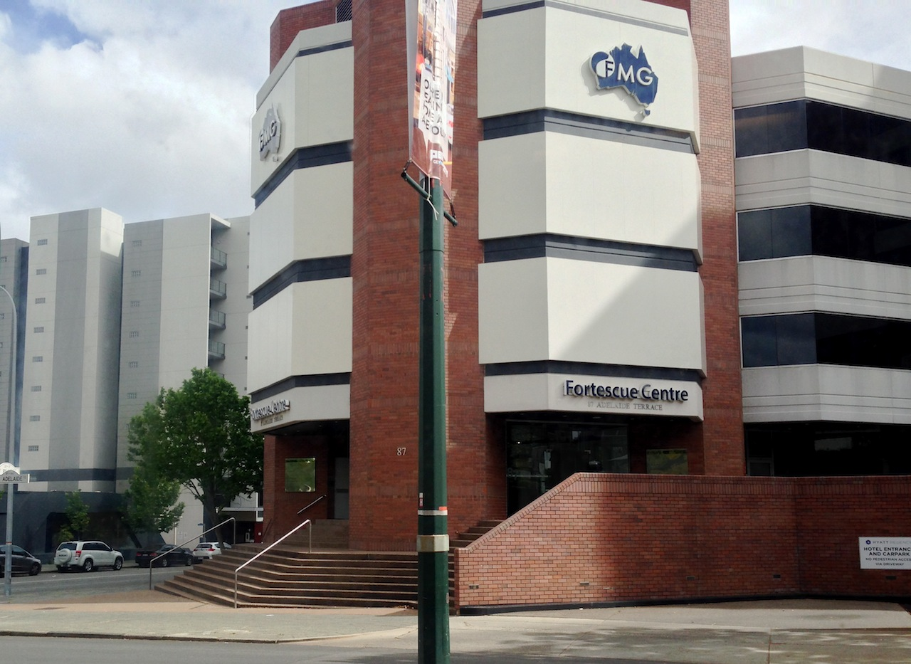 North East corner of the Hyatt Hotel complex of buildings on south side of Adelaide Terrace, Perth, Western Australia - currently known as the FMC centre... taken from bus during Perth Open Day 2nd November 2014